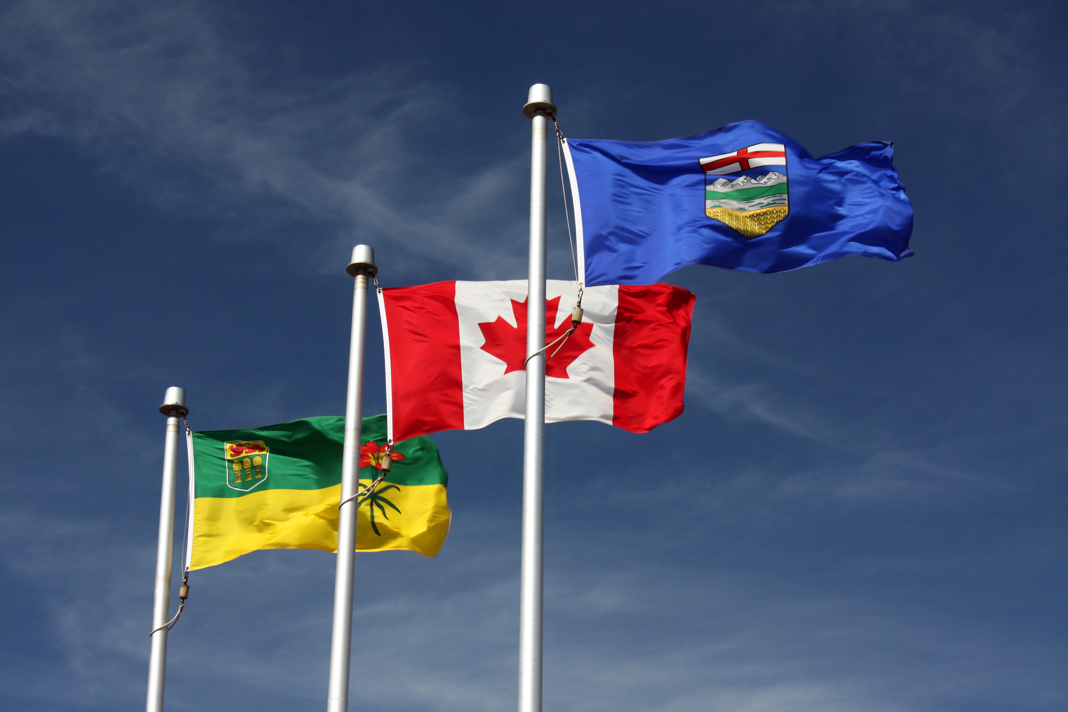 From left to right, the flags of Saskatchewan, Canada, and Alberta flying together in Lloydminster, Saskatchewan/Alberta